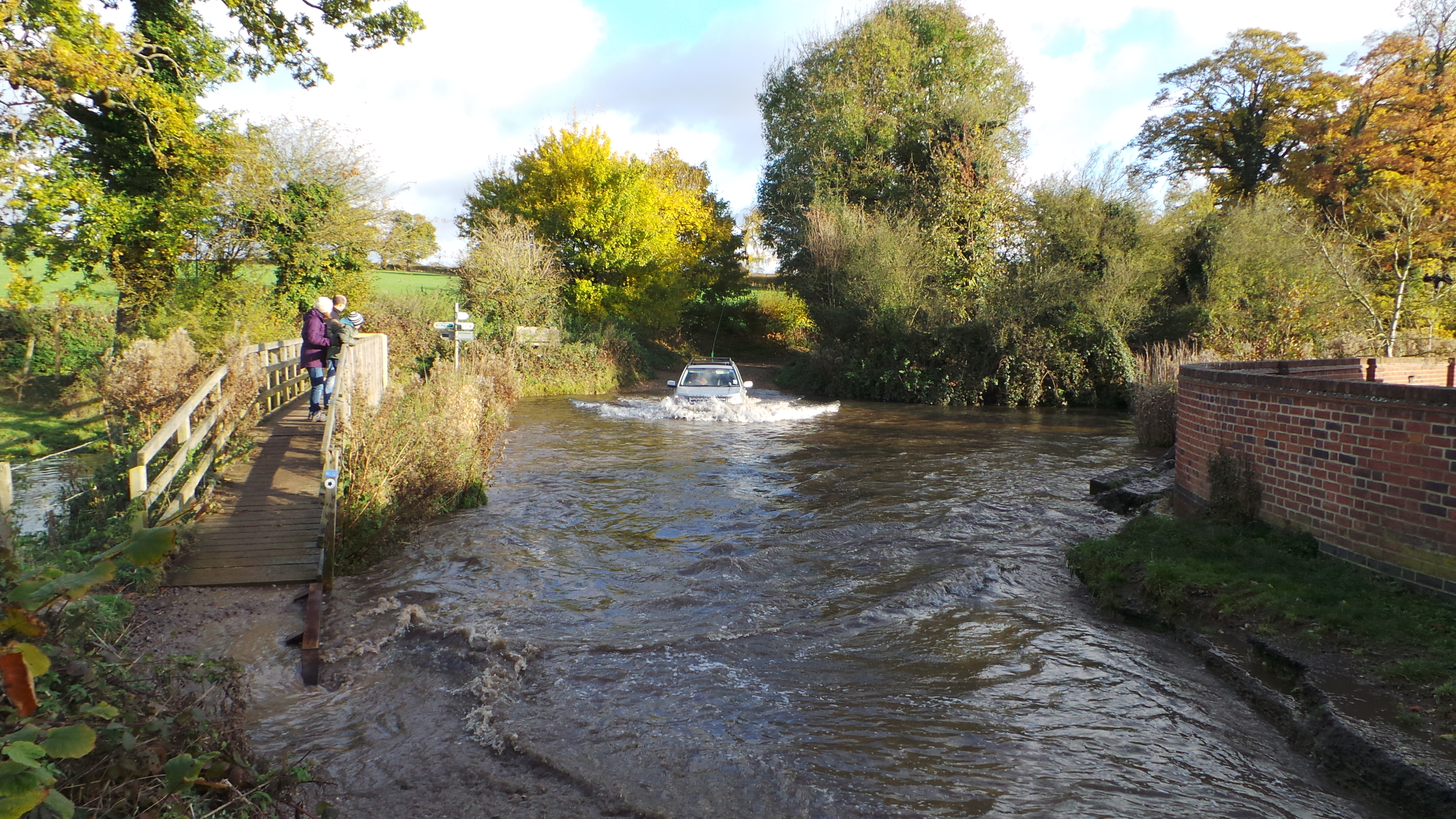 a car (a Land Rover Freelander 2) being driven through a ford while off-roading.